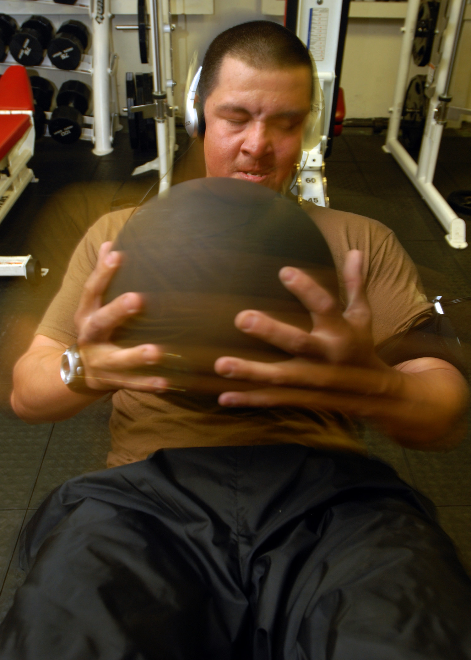 Aviation Boatswain's Mate (Handling) 3rd Class William Ross exercises with a medicine ball inside the Big Stick Gym aboard the aircraft carrier USS Theodore Roosevelt (CVN 71).